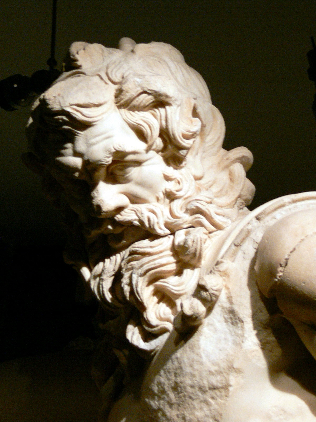 Antalya Archaeological Museum. Perge collections: Statue of Marsyas in the theatre of Perge - detail.